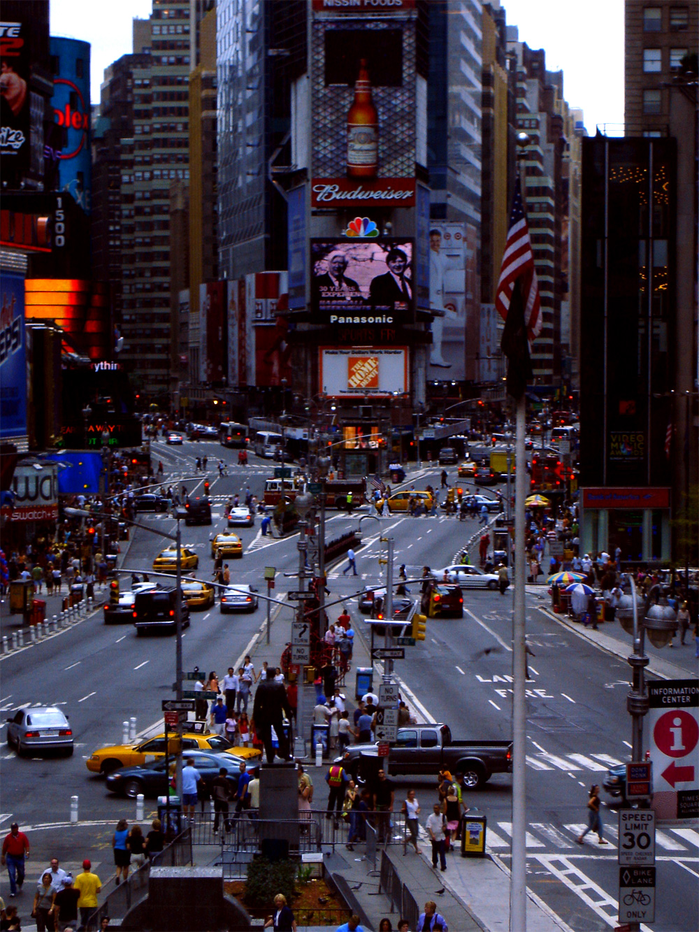 Times Square. View towards One Times Square, at the intersection of 7th Ave. (foreground, right) and Broadway (foreground, left). (New York, USA)